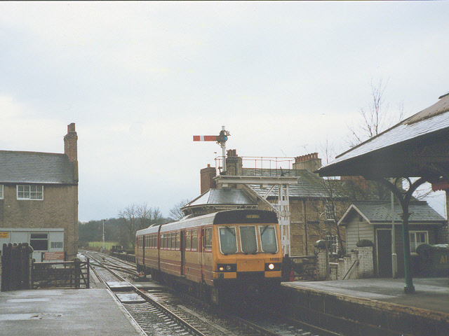 Arriving at Knaresborough by train